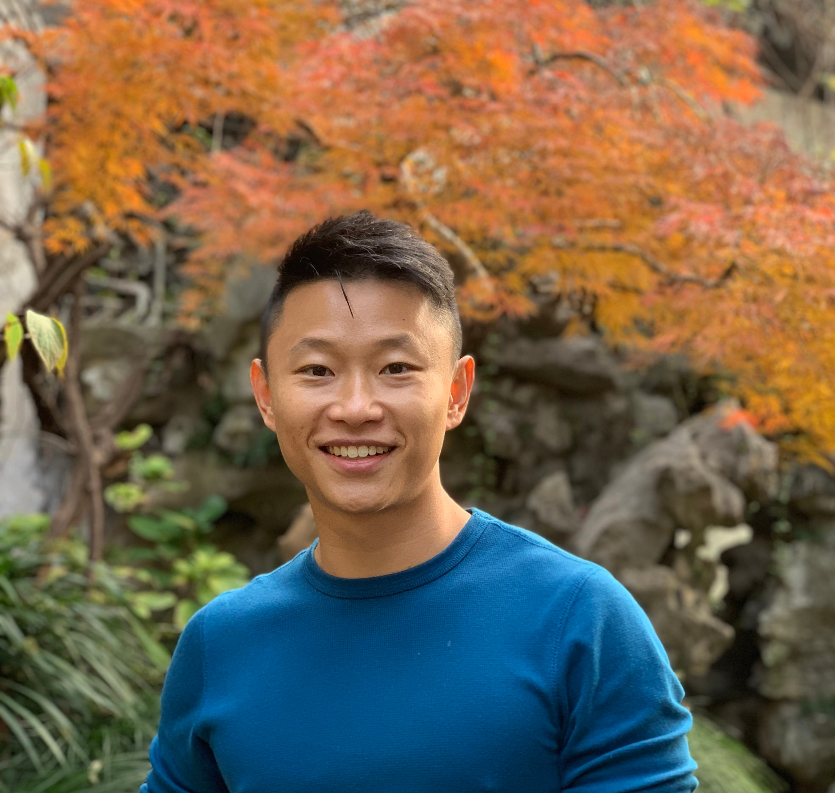 Alvin Poh